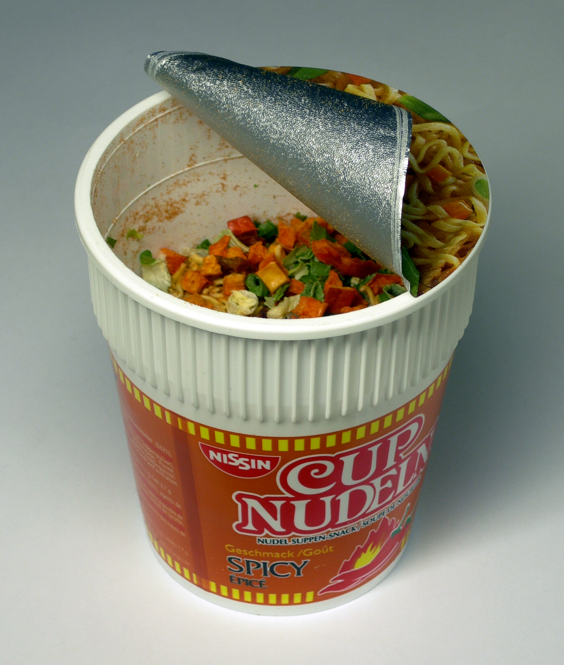 Nissin Cup Noddles before preparation